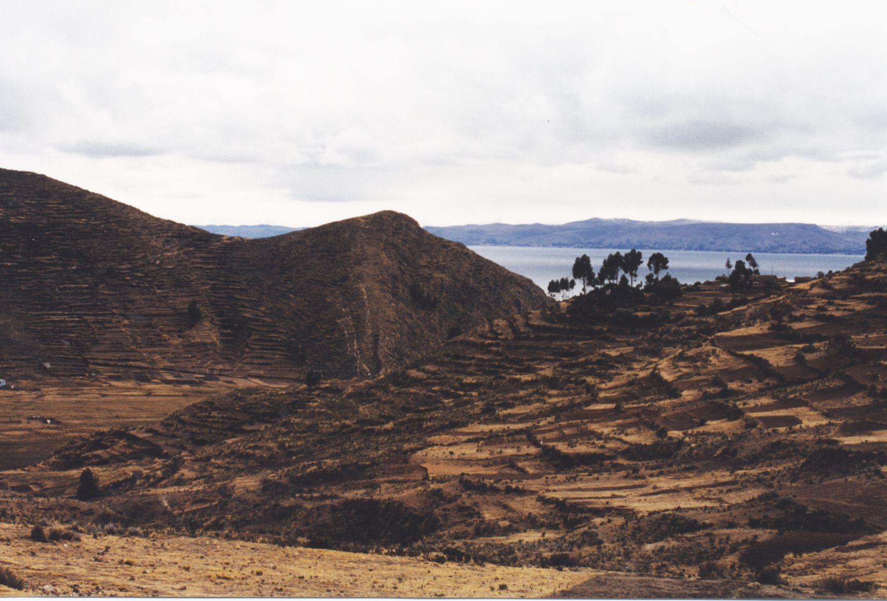 Isla Del Sol, on Lake Titicaca, in Bolivia.